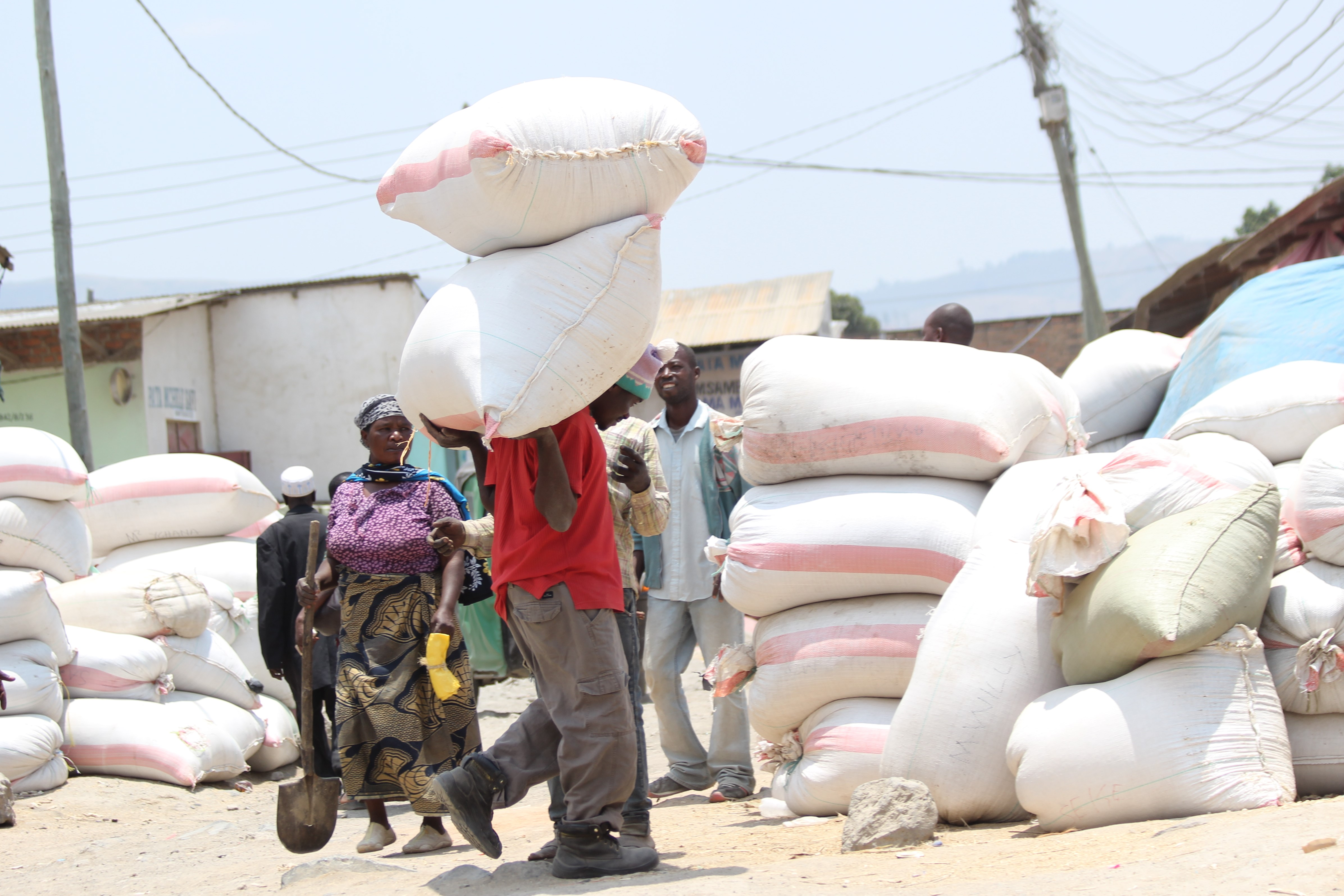 This is an image of "African people at work" from Tanzania